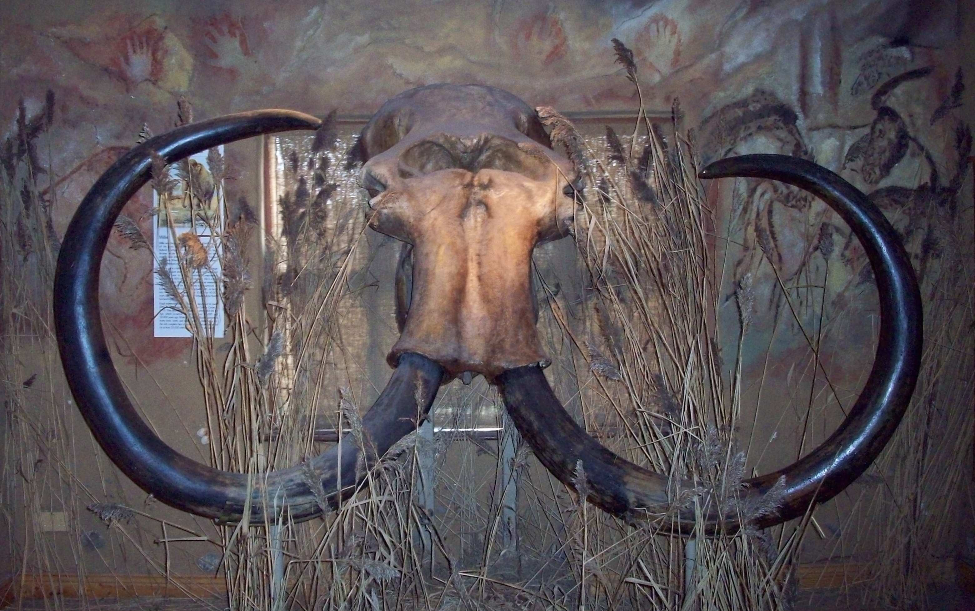 This is the Skull of the woolly mammoth called Millie. It was discovered in May 1999 in the North Sea at the coast of the Netherlands near Hook of Holland by fishermen. It was broken into some twenty seven fragments and got restored by approximately 90% of its original fossil material. It was fully dug up on Easter Sunday in the year 2000 and got the name "Millie". It was a very large Bull who roamed some 30.000 to 40.000 years ago. The skull is currently located in the Celtic and Prehistoric Museum, Slea Head Route, Kilvicadownig, Ventry, Ireland